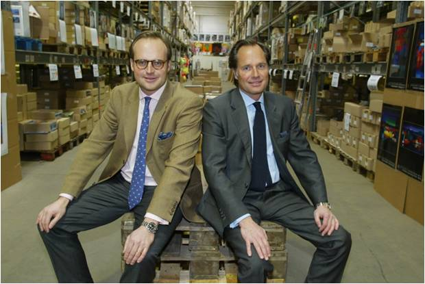 Hendrik and Sebastian teNeues